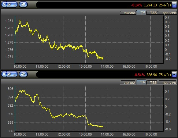 Compare TA25 index and TA75 index